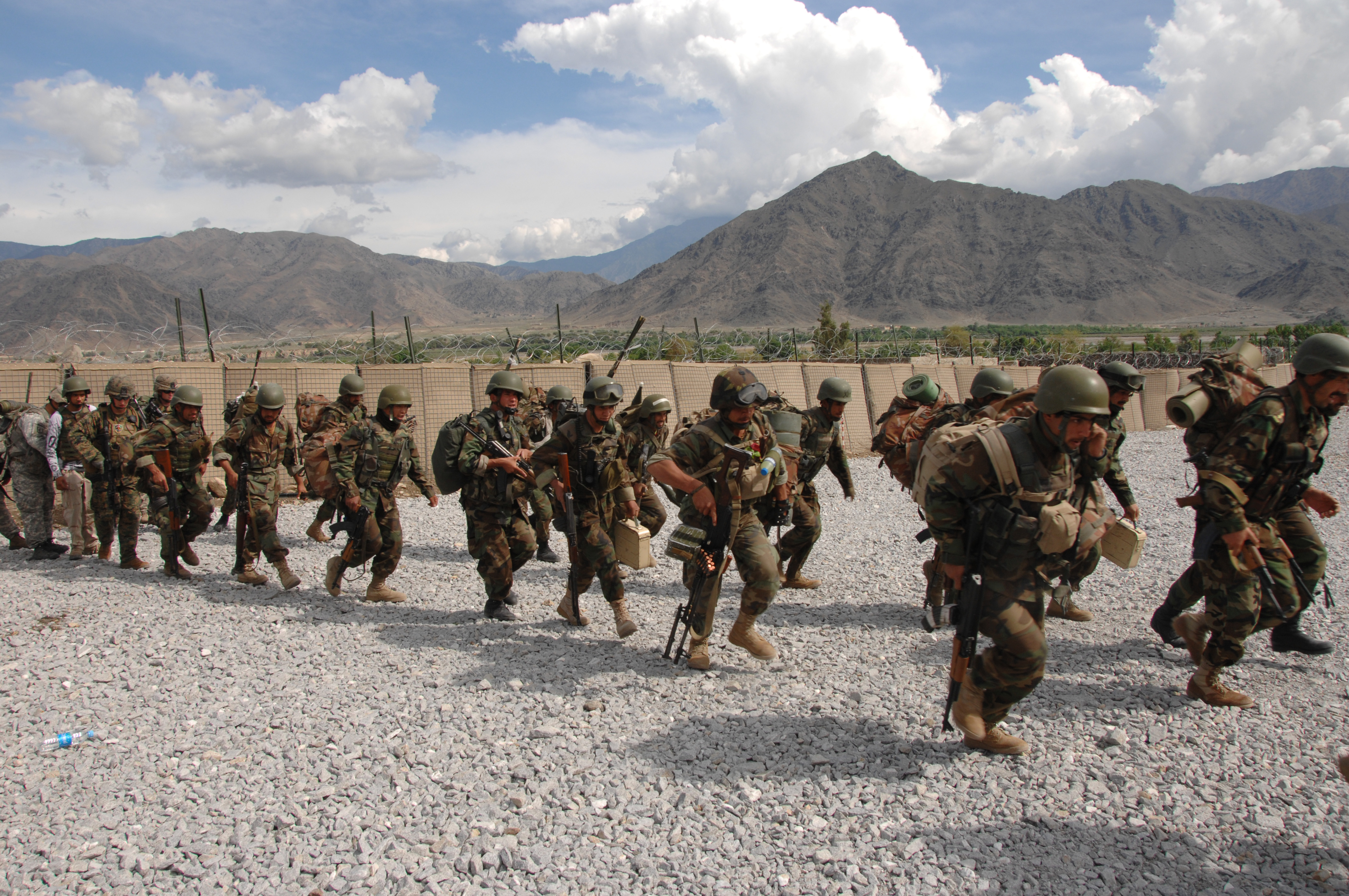 U.S. Army Soldiers from 2nd Battalion, 503rd Infantry Regiment, 173rd Airborne Brigade Combat Team, Afghan National Army soldiers, and members of the Afghan Border Patrol prepare to conduct training on how to enter and exit a CH-47 Chinook helicopter in preparation for a combat operation April 11, 2008, on Forward Operating Base Fortress. in the Konar province of Afghanistan.